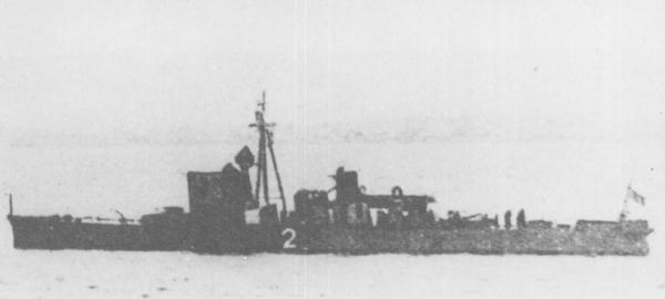 Japanese No.2 submarine chaser. This photo was published in 1935 as official.